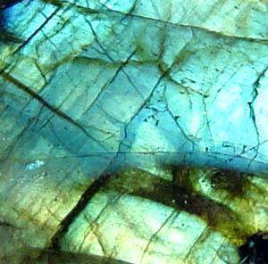 Detail of labradorite feldspar displaying typical labradorescence.